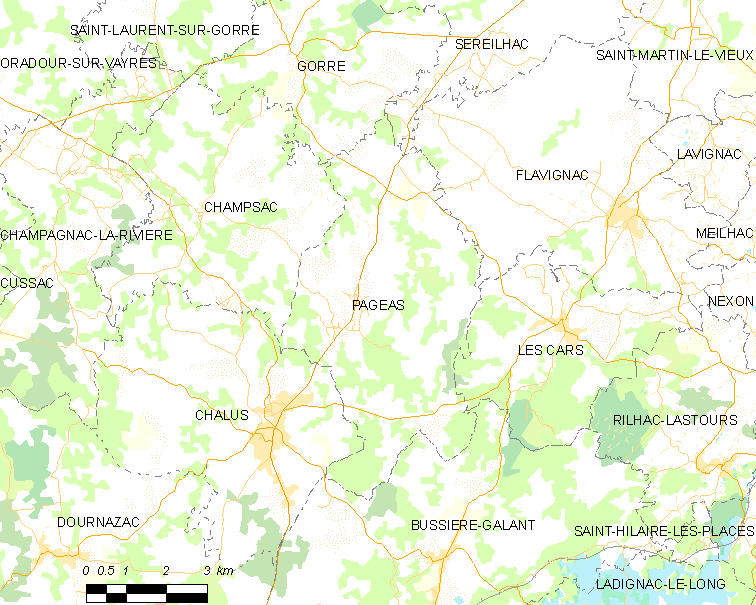 Map of French municipality Pageas